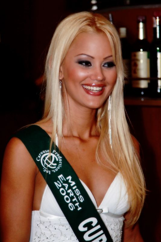 Kristal Sprock, 21 yrs, 5'7", 35-24-35. Contestant at Miss Earth 2006